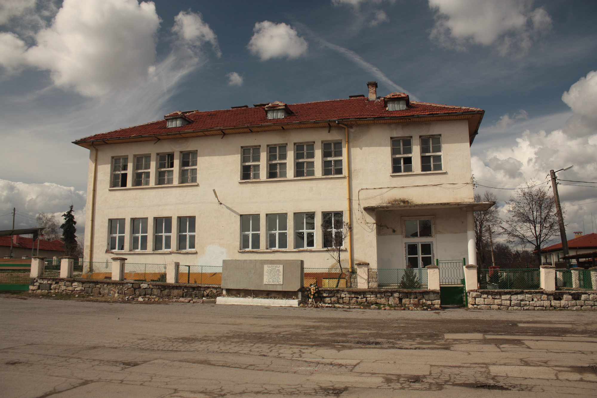 Prolesha School and War memorial in front